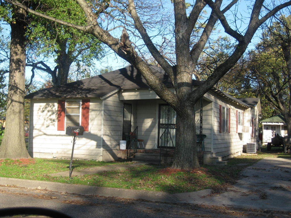 Ike Turner house at 304 Washington in Clarksdale, Mississippi